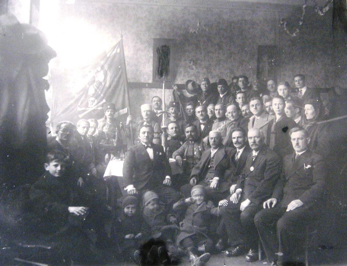 The board of the association "Association of chetniks for freedom." Bitola, 1918-1941 This media file is produced by Wikipedian in Residence in Category:Wikipedian in Residence at DARM in 2016.